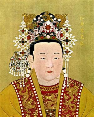 The Official Imperial Portrait of Ming Dynasty's Empress